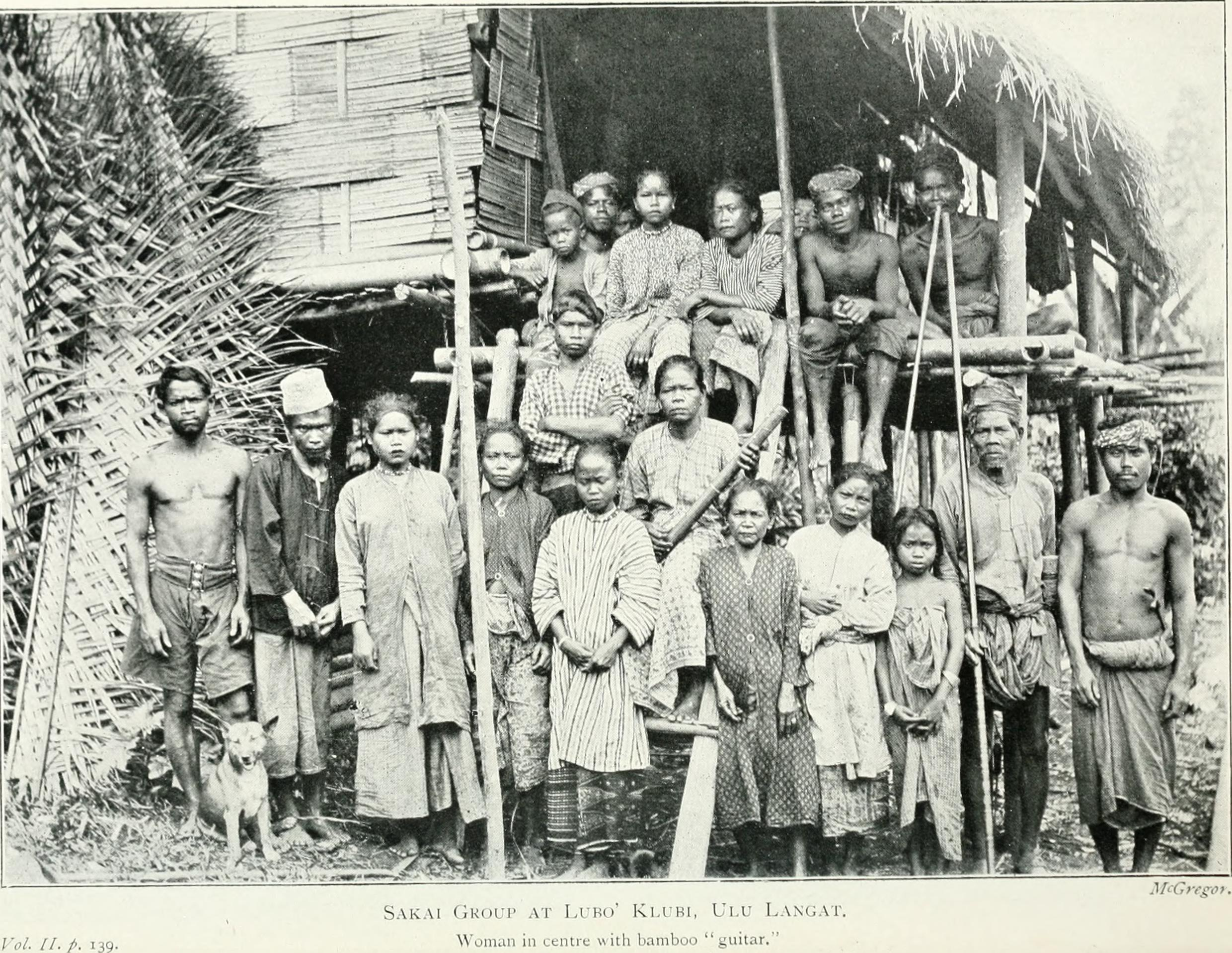 Title: Pagan races of the Malay Peninsula Year: 1906 (1900s) Authors: Skeat, Walter William, 1866- Blagden, Charles Otto, 1864-1949 Subjects: Ethnology -- Malay Peninsula Malays (Asian people) Malay Peninsula -- Social life and customs Malay Peninsula -- Religion Malay Peninsula -- Aboriginal dialects Publisher: London : Macmillan and Co., limited (etc., etc.) Text Appearing Before Image: Sakai \\ci.mf.\ Uaxcinc. iS. Ii.kak, i Vol. 11. p. 13S. Text Appearing After Image: CHAP. V SAVAGE MALAYS OF SELANGOR 139 which is a mere list of place-names/ we have few trust-worthy records of the words of Sakai songs, with theexception of the account by Colonel Low, where weare told that their Mampade, or airs were much inthe Siamese style (which last undoubtedly takes thelead amongst the musical compositions of the Indo-Chinese nations), and that their songs had an inter-mixture of Malay, as in the following specimen whichwas sung somewhat in the Siamese mode :— Pirdu salen kinnang ingat sampeiYari mola asa) nyite gyijenAyer ambun umbun moliKiri baju layang mayep singi. No satisfactory translation could be got of thisfragment, but the greater part of the words areMalay.-^ Selangfop Sakai.—The Sakai of Ulu Langat (asalso those of Perak) are very fond of wind-organs,which are long bamboos with a slit in each inter-node, which are lashed to the top branches of trees,and which give out musical tones when the windblows over them.^ III.—Jakun.Musical Instruments.